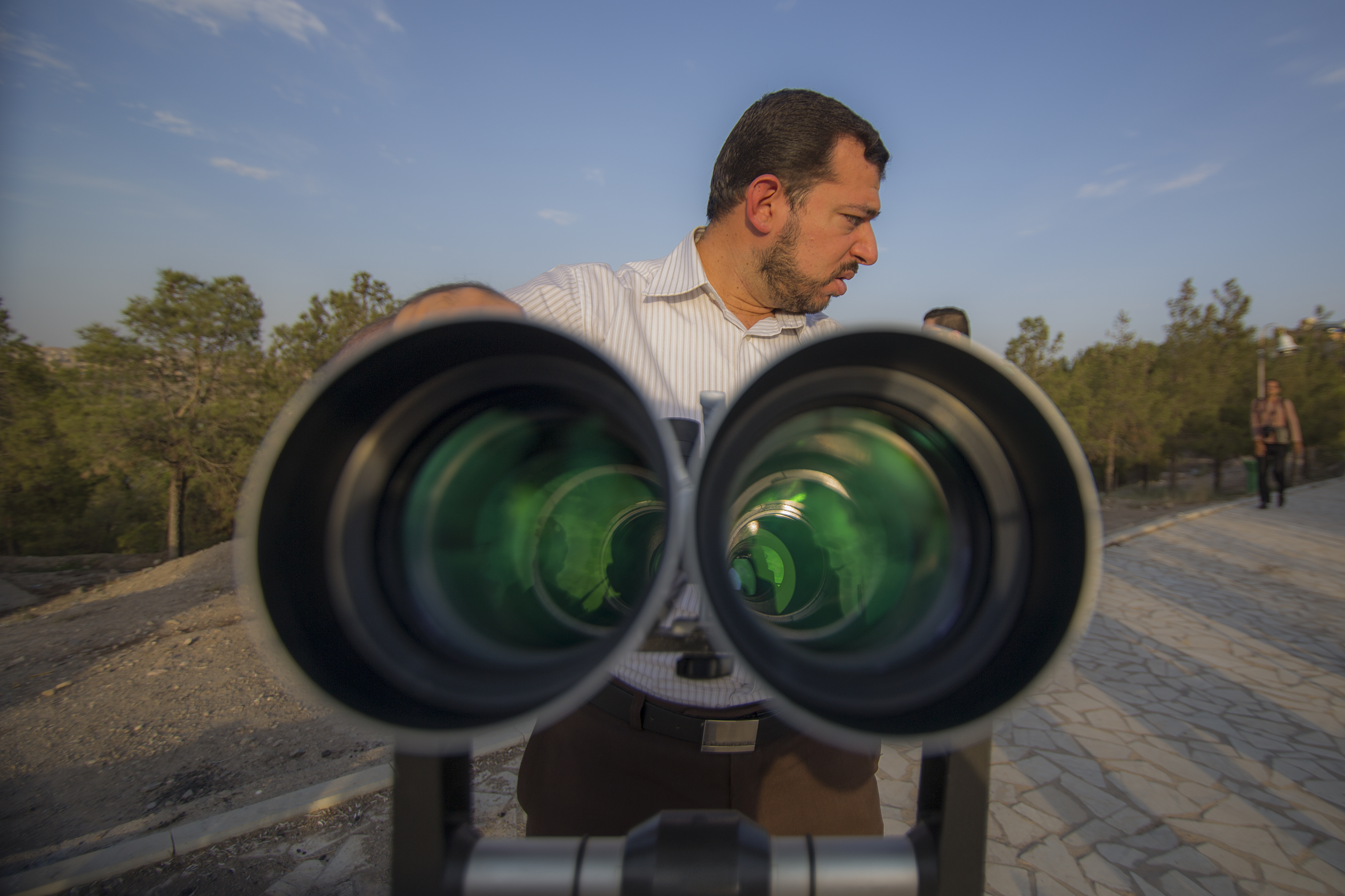 Astronomy (from Greek: ἀστρονομία) is a natural science that studies celestial objects and phenomena. Žemaitėška: Astruonuomėjė (gr. astron - žvaiždie, nomos - diesnės) - muokslos, apėmontės reiškėniū, esontiū ož Žemės ė anuos atmuosperas, stebiejėma ė aiškėnėma. Zeêuws: De astronomie of staerrekunde ou zen eihen bezig mie 't bekieken en verklaeren van diengen buut'n de atmosfeêr. ייִדיש: אַסטראָנאָמיע איז די וויסנשאפט וואס באהאנדלט איבער די הימלען באַװעגונגען, און אַלעס װעגן אַנטװיקלונגען אַרום אונדזער װעלט ו.צ.ב די זון מיט דער לבֿנה, שטערן און אַלע הימל געשעענישן. Xitsonga: Dyondzo ya tinyeleti (kusukela eka Xigriki: αστρονομία ) i sayensi leyi lavisisaka hi ta tinyeleti ta tilo na swilo leswinge matilweni. Wolof: Saytubiddiw mooy xam-xam biy xool aka saytu biddiw yi, di jéem a faramface ak a leeral seen melokaan ci jëmm ak ci simi, seenug magg ak seen cosaan. Ido: فلکیات قُدرتی علوم کی ایک ایسی مخصُوص شاخ ہے جس میں اجرامِ فلکی (مثلاً، چاند، سیارے، ستارے، سحابیے، کہکشاں، وغیرہ) اور زمینی کرۂ ہوا کے باہر روُنما ہونے والے واقعات کا مشاہدہ کیا جاتا ہے۔ اِس میں آسمان پر نظر آنے والے اجسام کے آغاز ، ارتقاء اور طبعی و کیمیائی خصوصیات کا مطالعہ بھی کیا جاتا ہے۔ فلکیات کے عالم کو فلکیاتدان کہا جاتا ہے۔ جہاں فلکیات محض اجرامِ فلکی اور دیگر آسمانی اجسام پر غور کرتی ہے، وہاں پوری کائنات کے سالِم علم کو علم الکائنات کہتے ہیں۔ Winaray : It Astronomiya[1] (Griyego: αστρονομία = άστρον + νόμος, astronomia = astron + nomos, kon ha literal, "balaod han mga bituon") amo an siyensya hit fenomena ha kalangitan nga natikang ha gawas han atmosferya han Kalibutan. Walon: L’ astronomeye est l’ syince di l’ observacion des asses, sayant di dner ene esplicåcion so leu skepiaedje, leu manire di candjî, leus prôpietés fizikes et tchimikes.